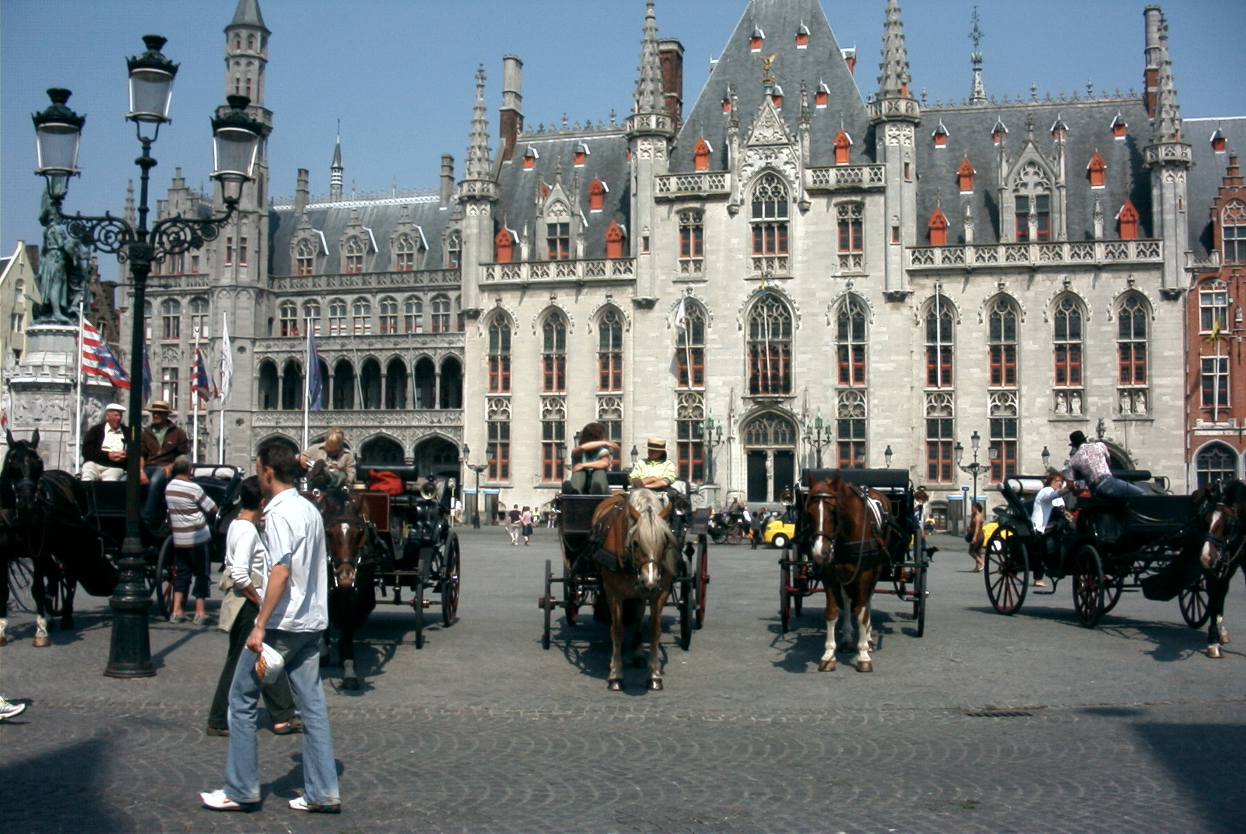 Bruges (Belgium): the Provinciaal Hof (Provincial Palace) on the Market place